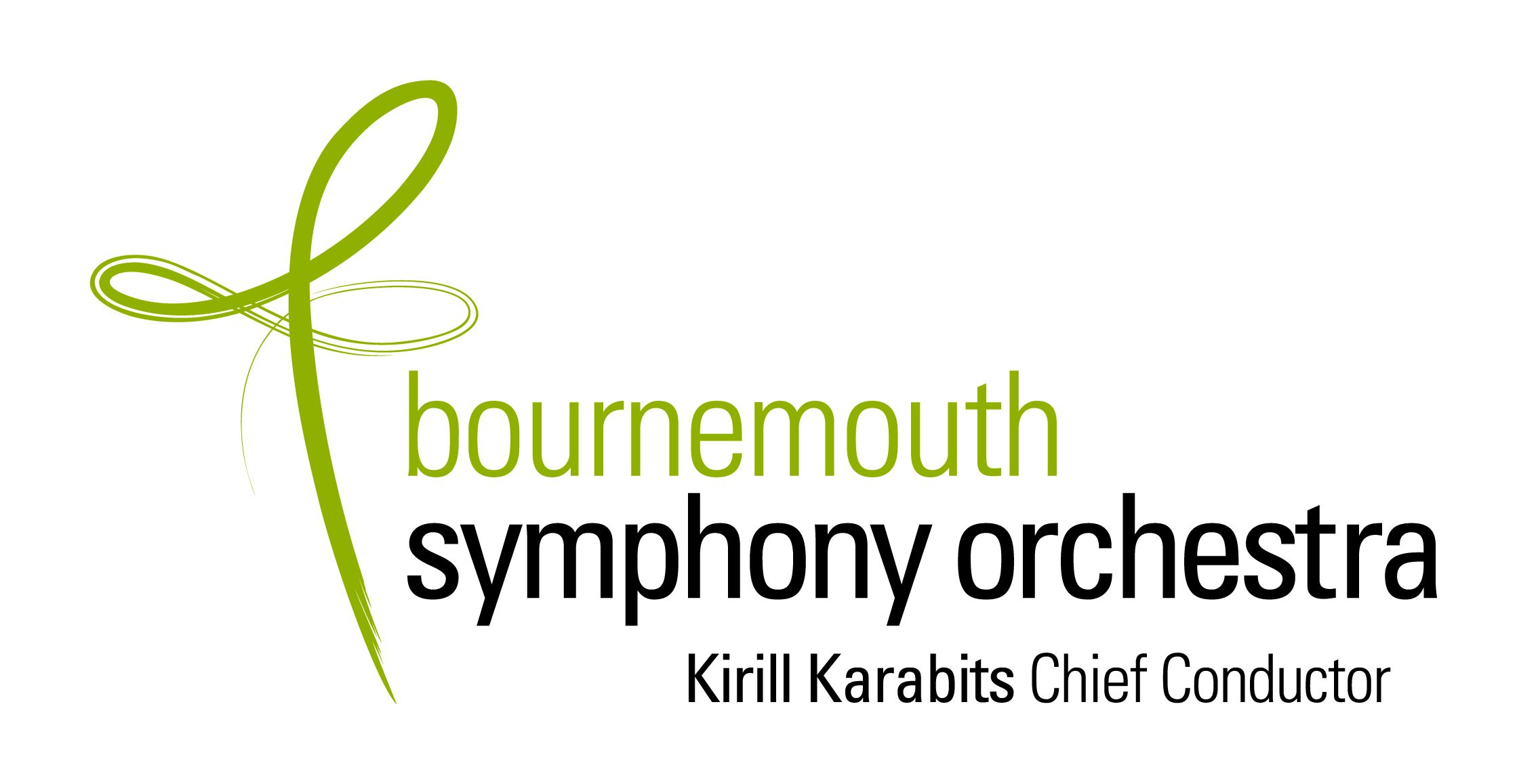 Logo of the Bournemouth Symphony Orchestra